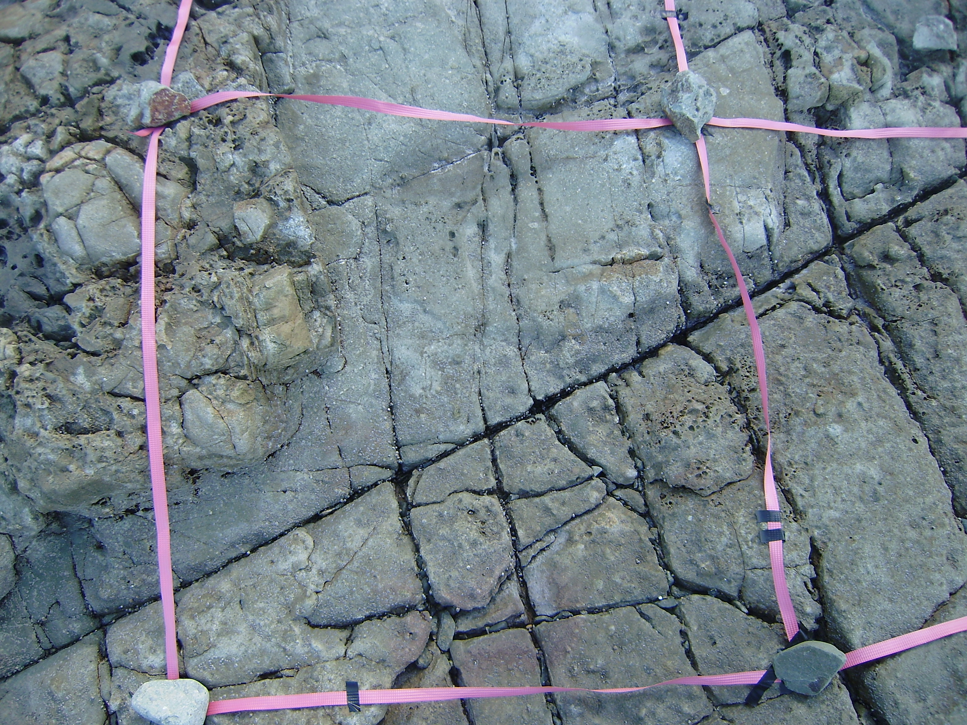 Joint system developed in andesitic breccia, shore of Pusan(S.Korea). the size of square is 1mX1m